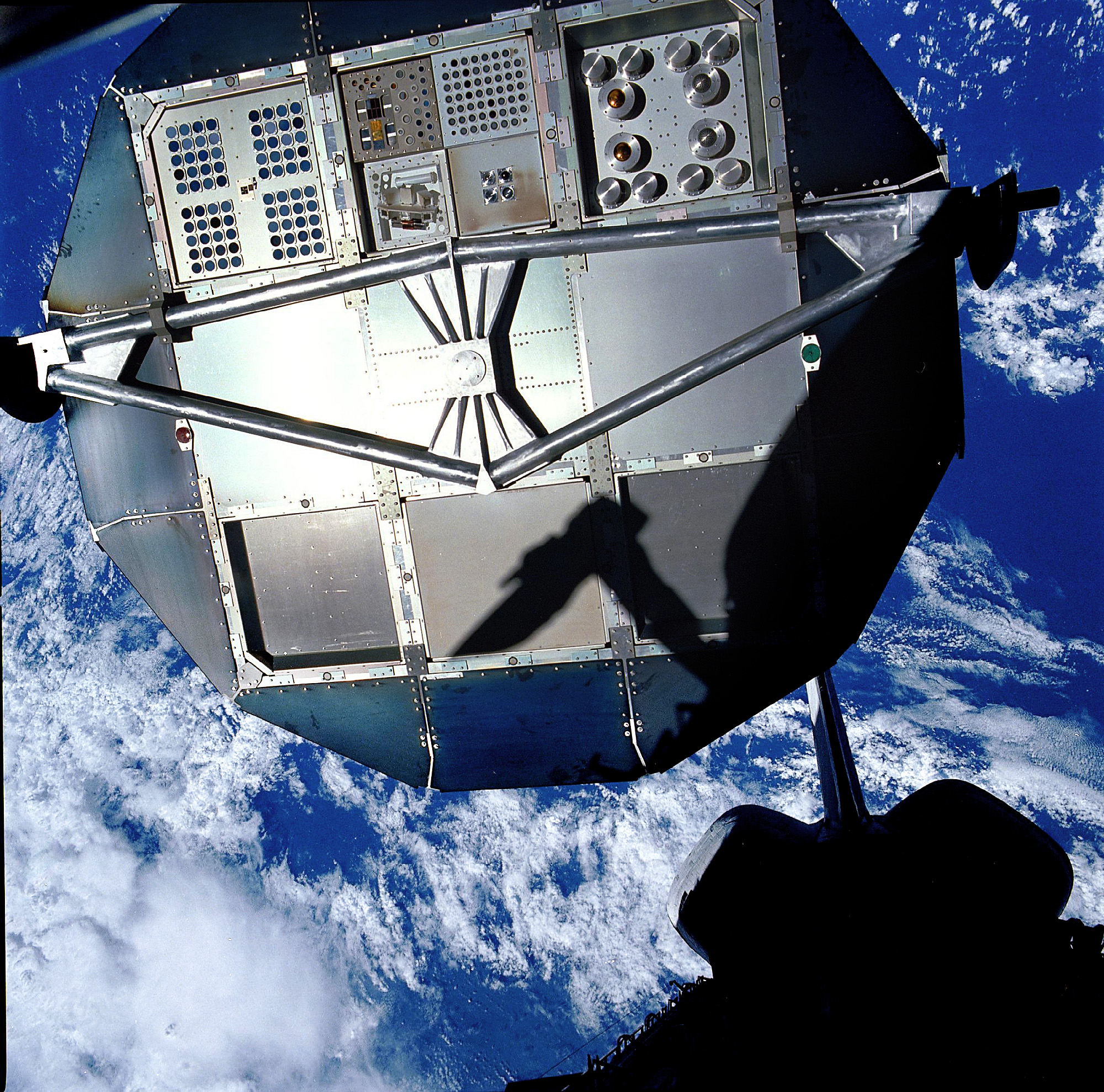 LDEF during photographic survey after retrieval on mission STS-32.